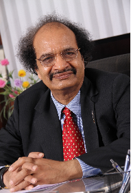 Prof. G D Yadav in his office.